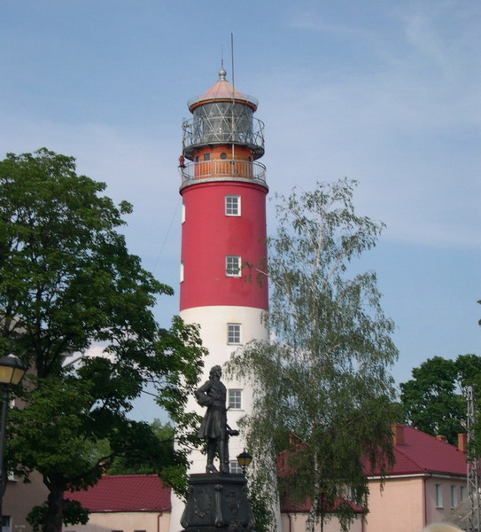 Lighthouse and monument to Peter I in Baltiysk